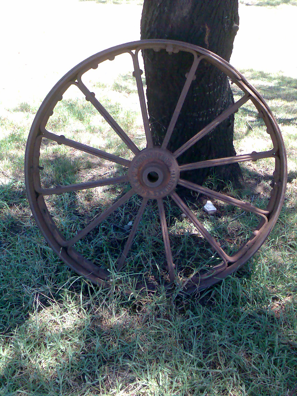 Metal wheel with rivetted flat spokes and tyre.